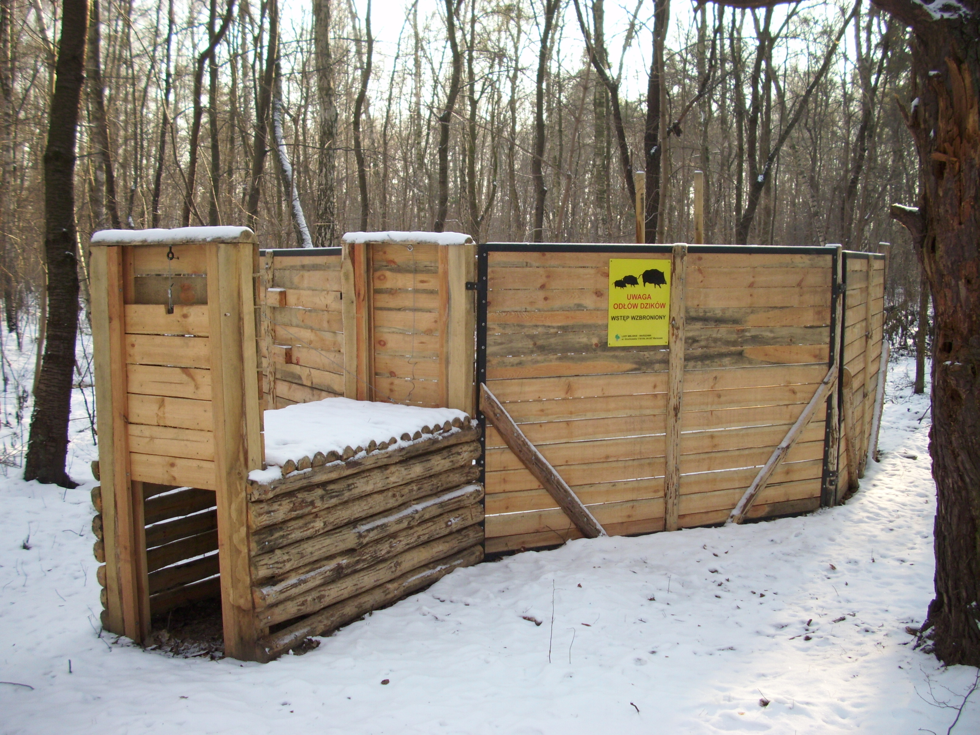 Wild boar trap in Bemowo Forest, Poland